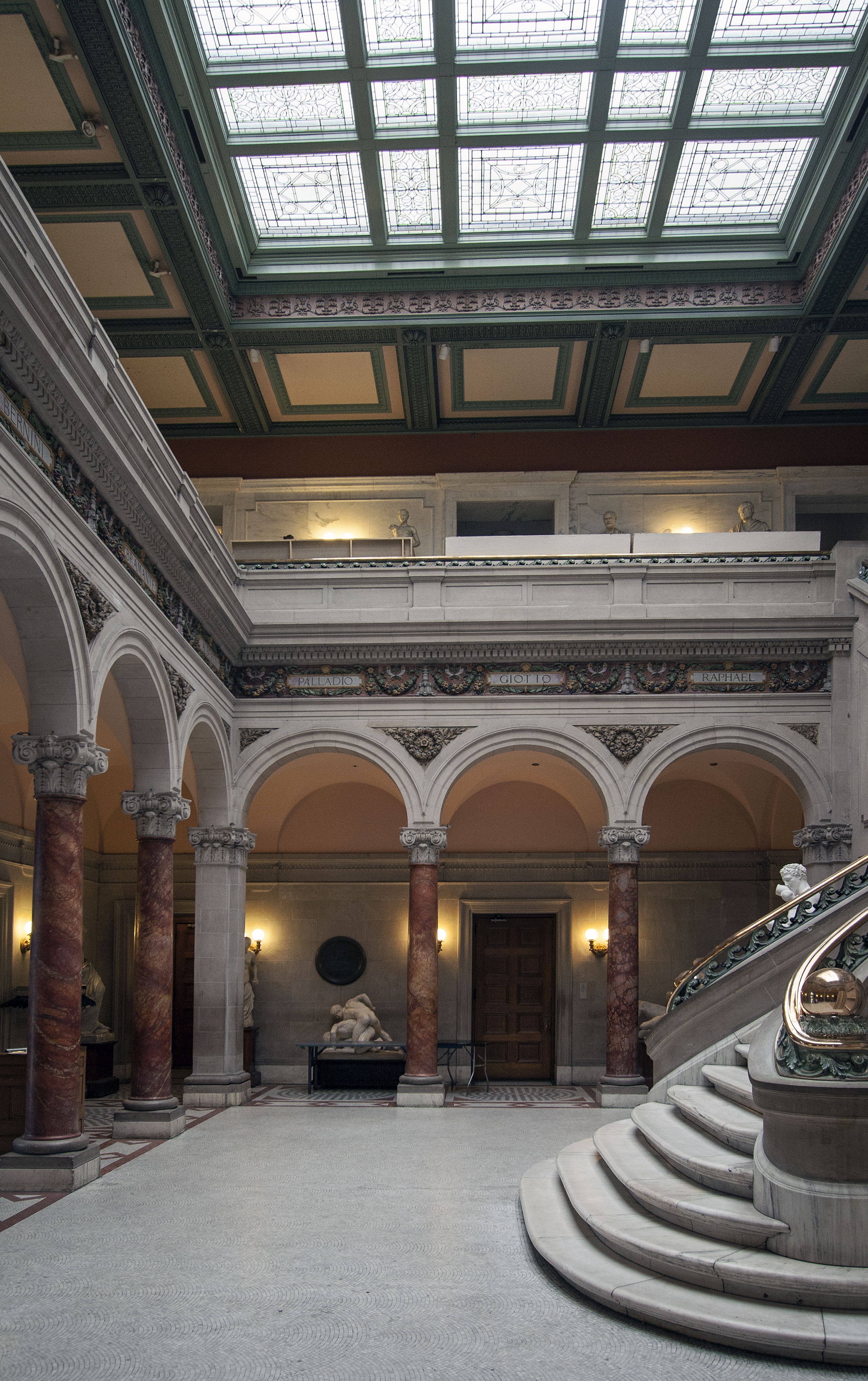 The main interior court of the Maryland Institute College of Art main building, Baltimore, Maryland, USA